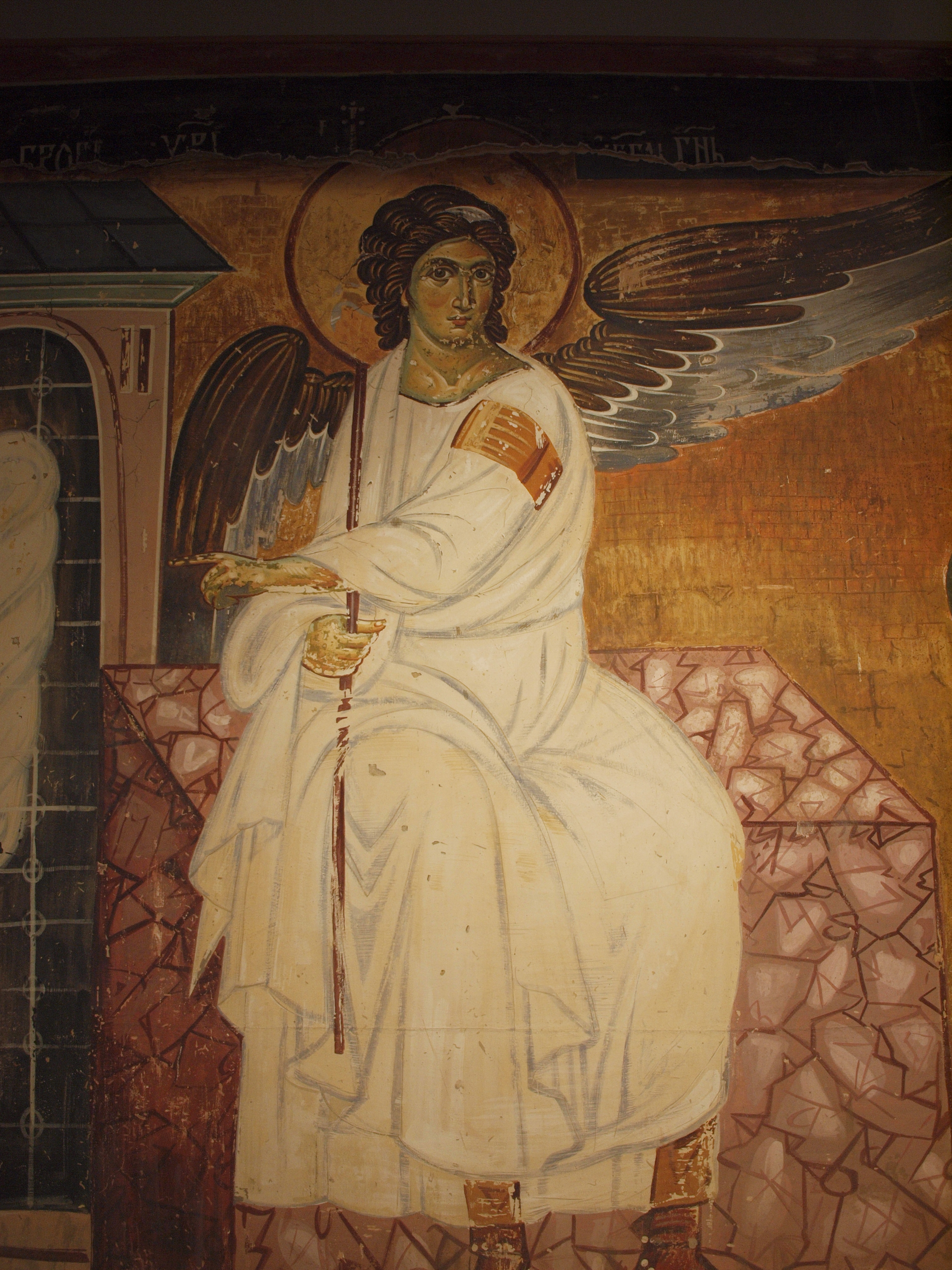 White angle at the tomb Mileševo Monastery